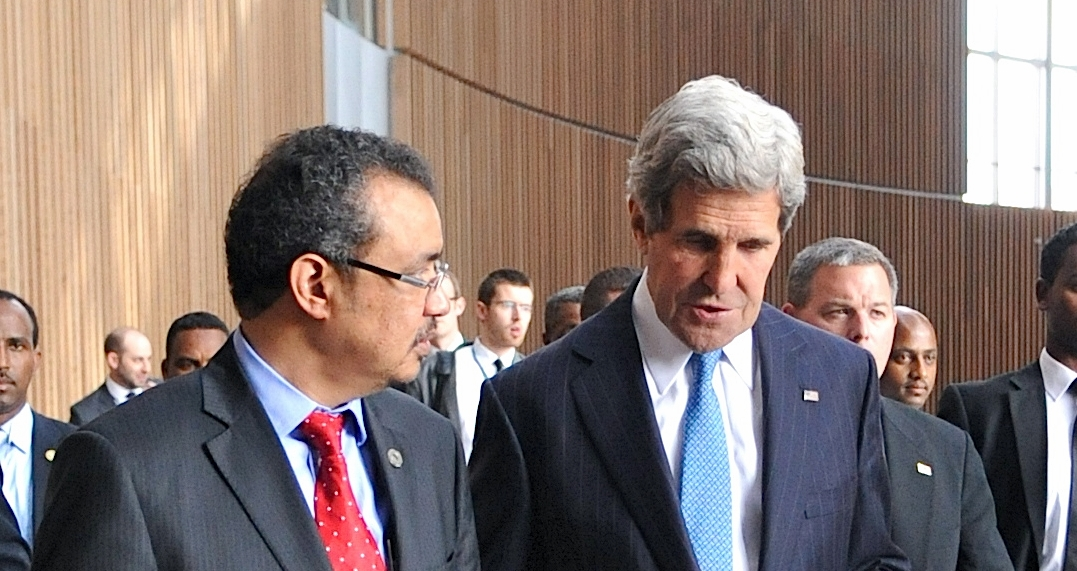 U.S. Secretary of State John Kerry walks with Ethiopian Foreign Minister Tedros Adhanom at the 50th anniversary African Union Summit in Addis Ababa, Ethiopia, on May 25, 2013. [State Department photo/ Public Domain]